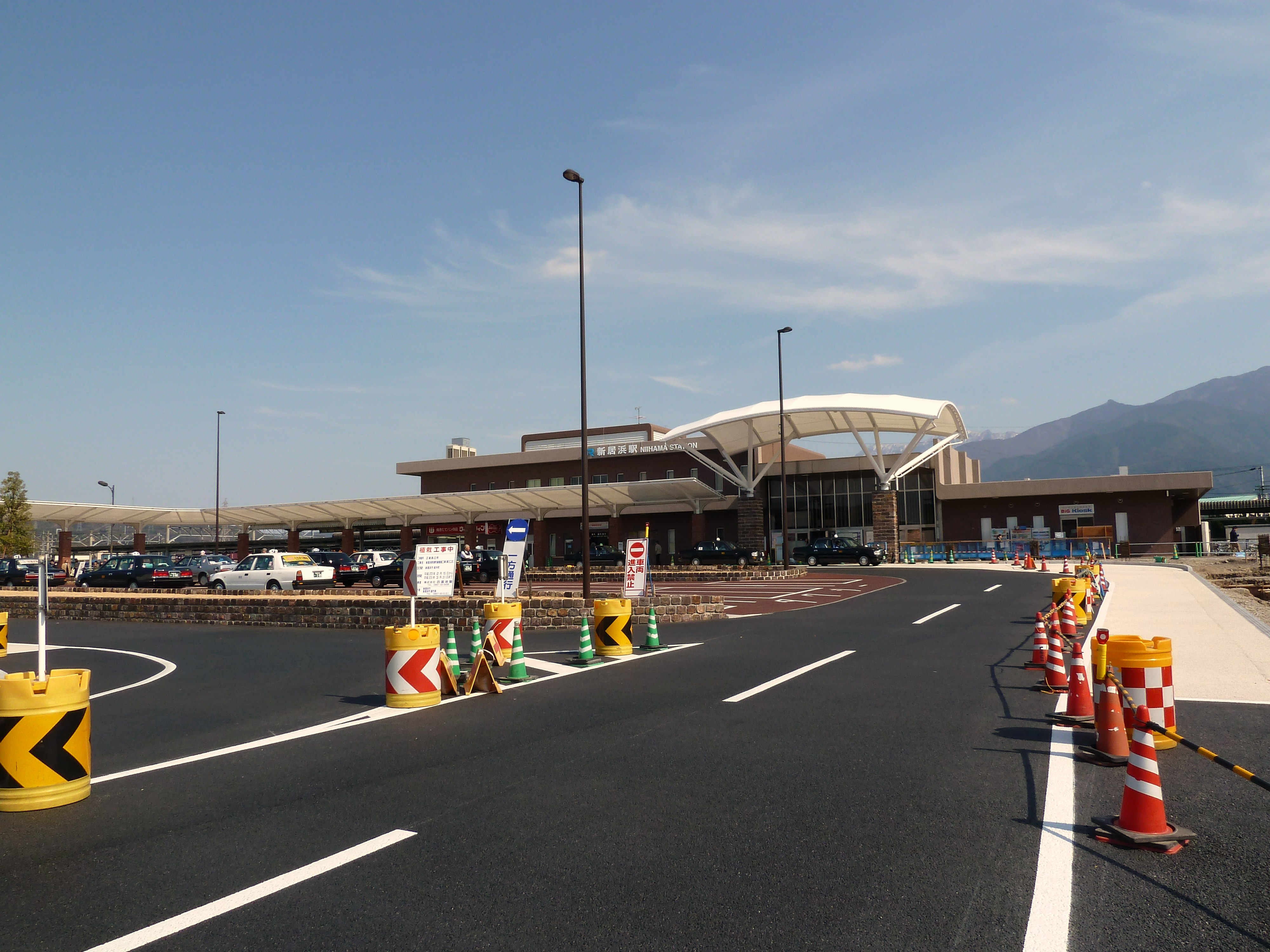 新居浜駅舎